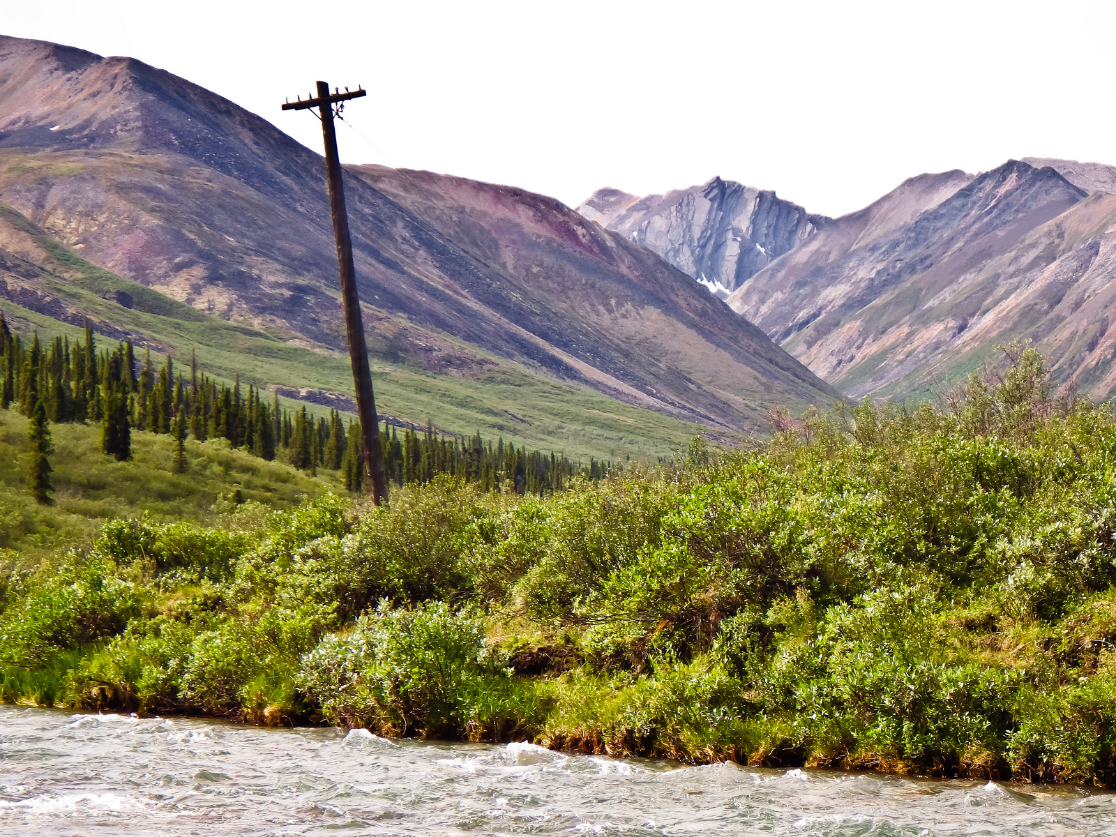 Near the Ekwi River